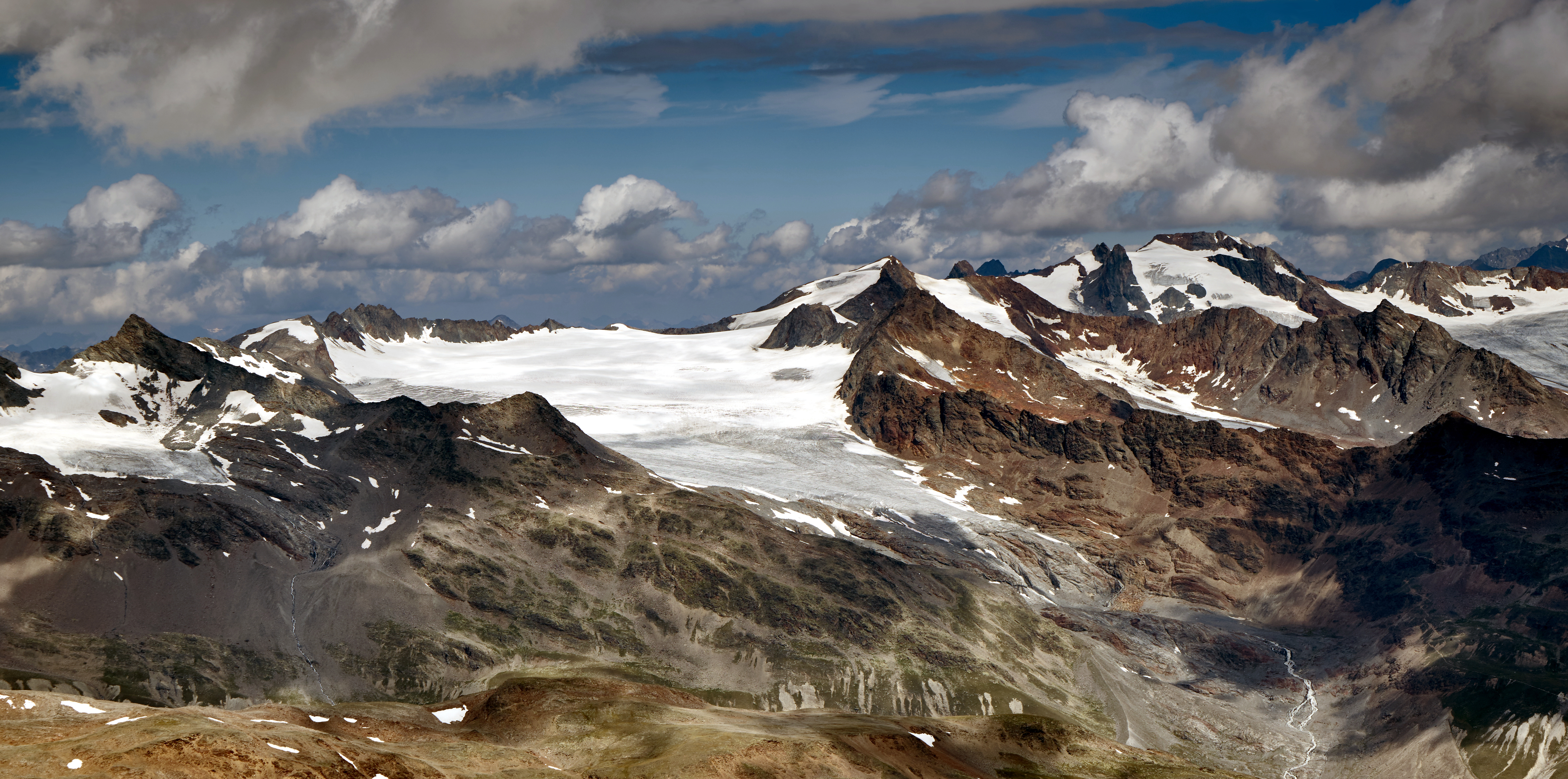 Weißkugel and Kesselwandferner, Ötztal Alps, Austria and Italy. This file shows the Nature Park with the ID 7122 in Austria.